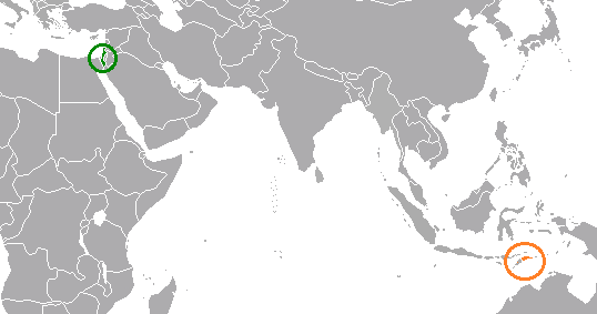 Map showing locations of both Israel and East Timor